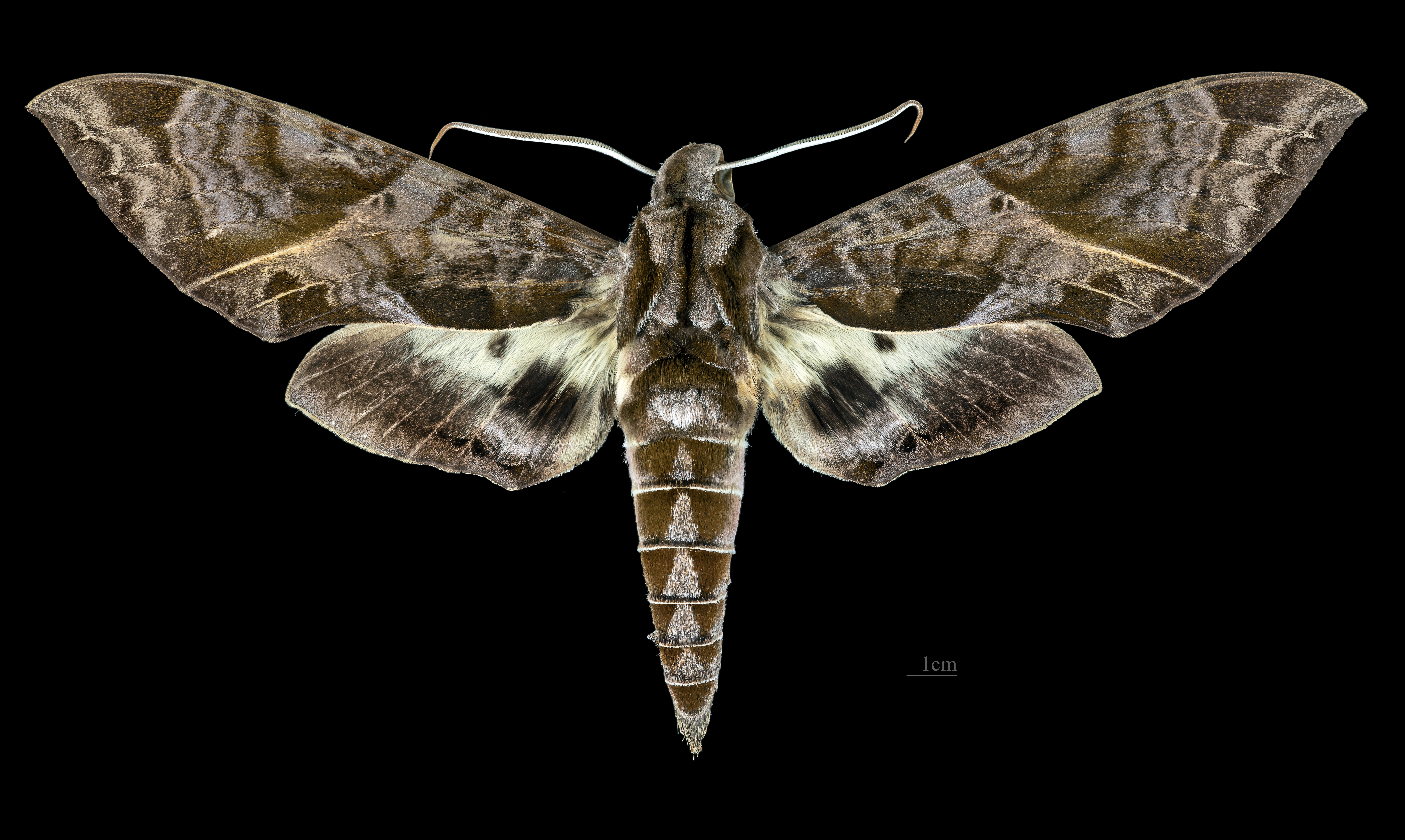 Eumorpha triangulum - Dorsal side Collection of the Mathematician Laurent Schwartz